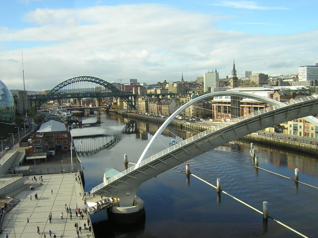 Bridges opening up.